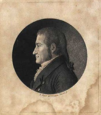 Carl Wilhelm Taube (1767-1838), Swedish baron and diplomat